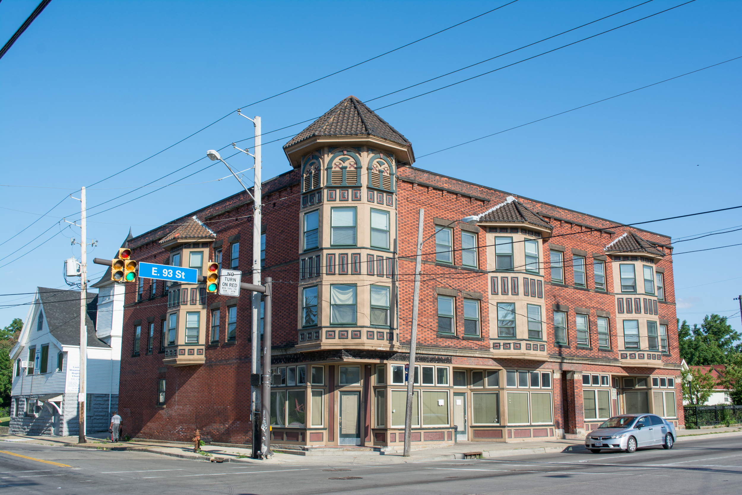 Northwest view of the Cermak Building, located at 3503 E. 93rd Street in the Union-Miles Park neighborhood of Cleveland, Ohio, in the United States. The building was constructed in 1909, and designed by local architect James Love Cameron for Fred J. Cermak, a local pharmacist. The building served as the center of the emerging Czech-Slovak-Polish community centered at the intersection of E. 93rd Street and Union Avenue. It was added to the National Register of Historic Places on October 18, 1984.